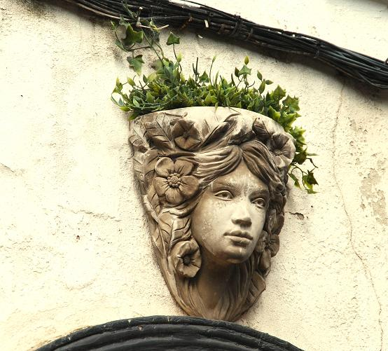 Head cum flower pot, Belfast. On a building in Queen Street. Not sure whether it's the genuine article such as 432347 and 1217838 or a modern reproduction. Different though!